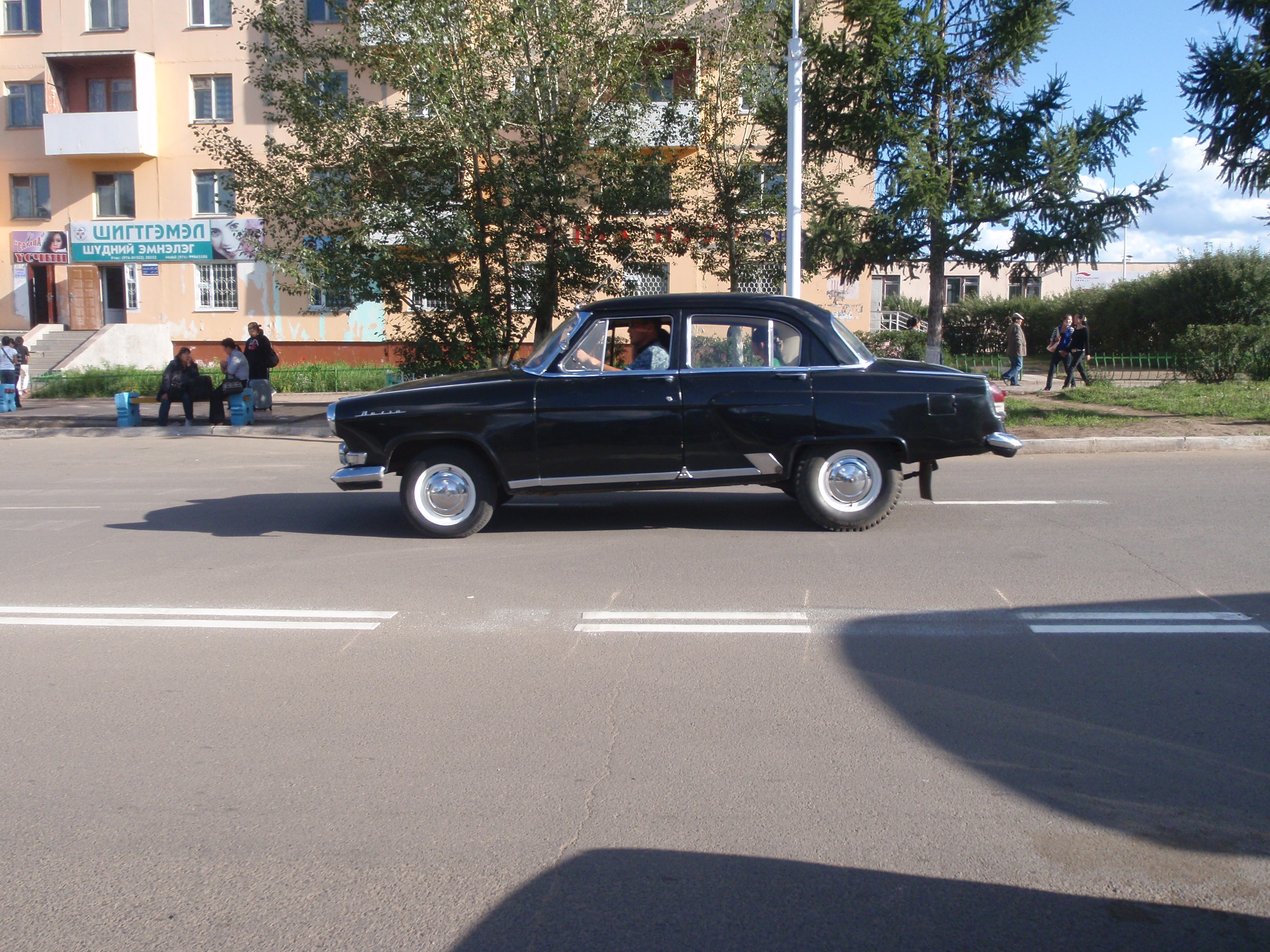 City Erdenet in Mongolia